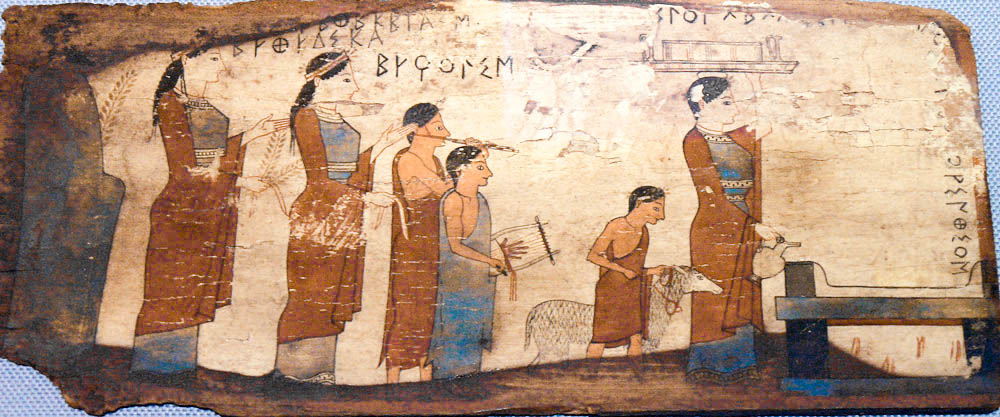 6th c. BC representation of an animal sacrifice scene in Pitsa panels. Translation from